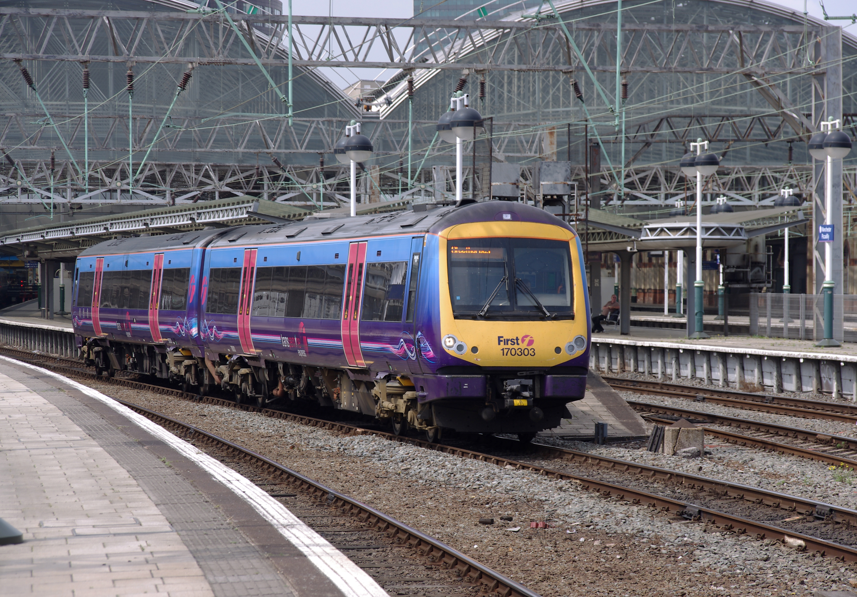 First TransPennine Express Turbostar DMU 170303 departs Manchester Piccadilly with a South Transpennine service to Cleethorpes.